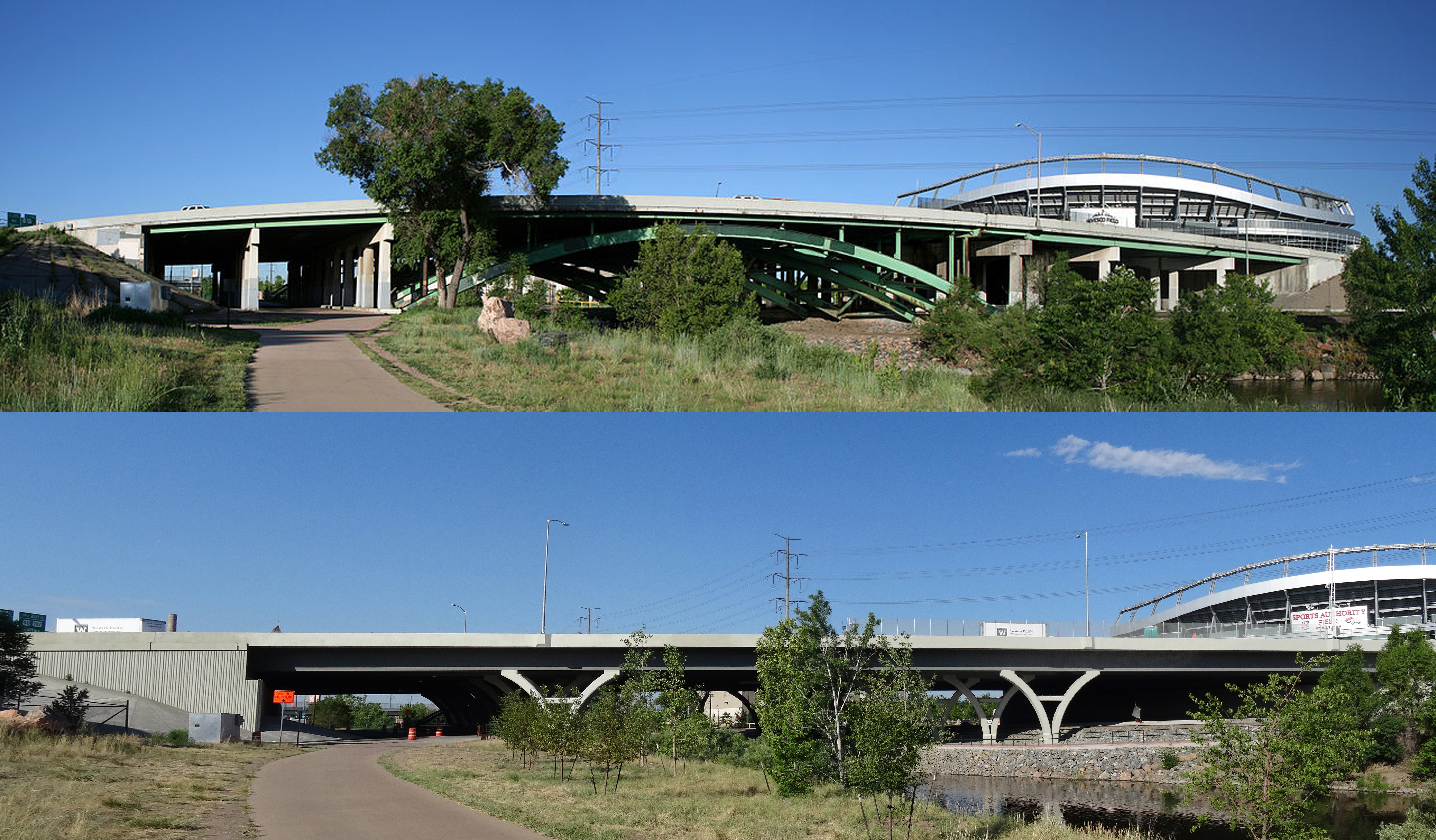 Top picture: June 23, 2009 Bottom picture: July 9, 2013 The old bridges (there were two) were called the South Platte River Bridges and were listed on the National Register of Historic Places. The new bridge was completed earlier in 2013. The bridges are Interstate-25 going over the South Platte River. The football stadium on the right was called INVESCO Field at Mile High in 2009; now it is called Sports Authority Field at Mile High.